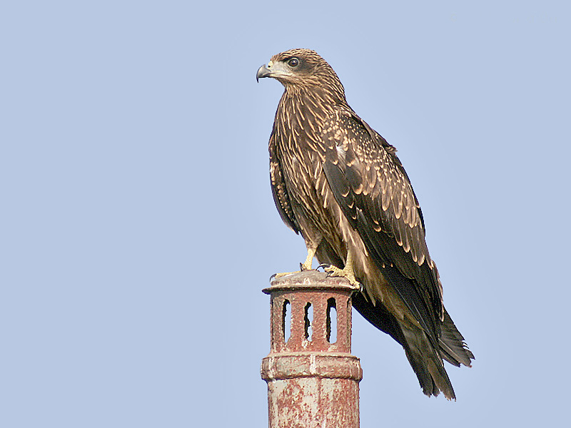 A Black Kite on the top of a chimney.